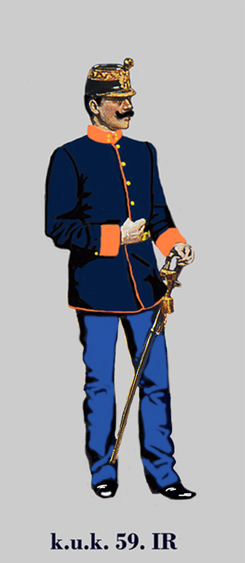 1st Lieutenant of the Austria-Hungarian (k.u.k.). 59th german Infantry Regiment in Parade dress. 1914